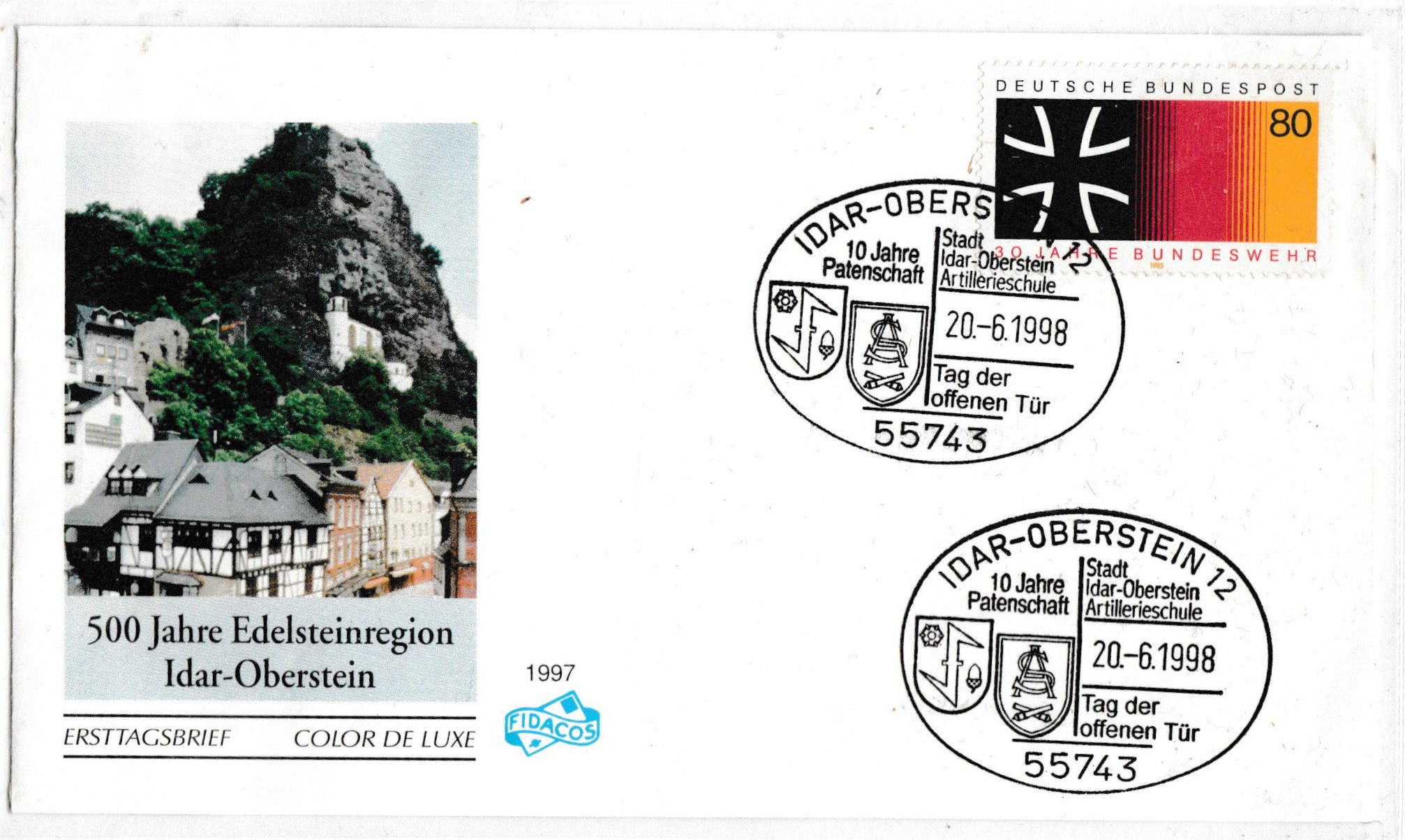 Special letter to celebrate the German artillery school in Idar-Oberstein